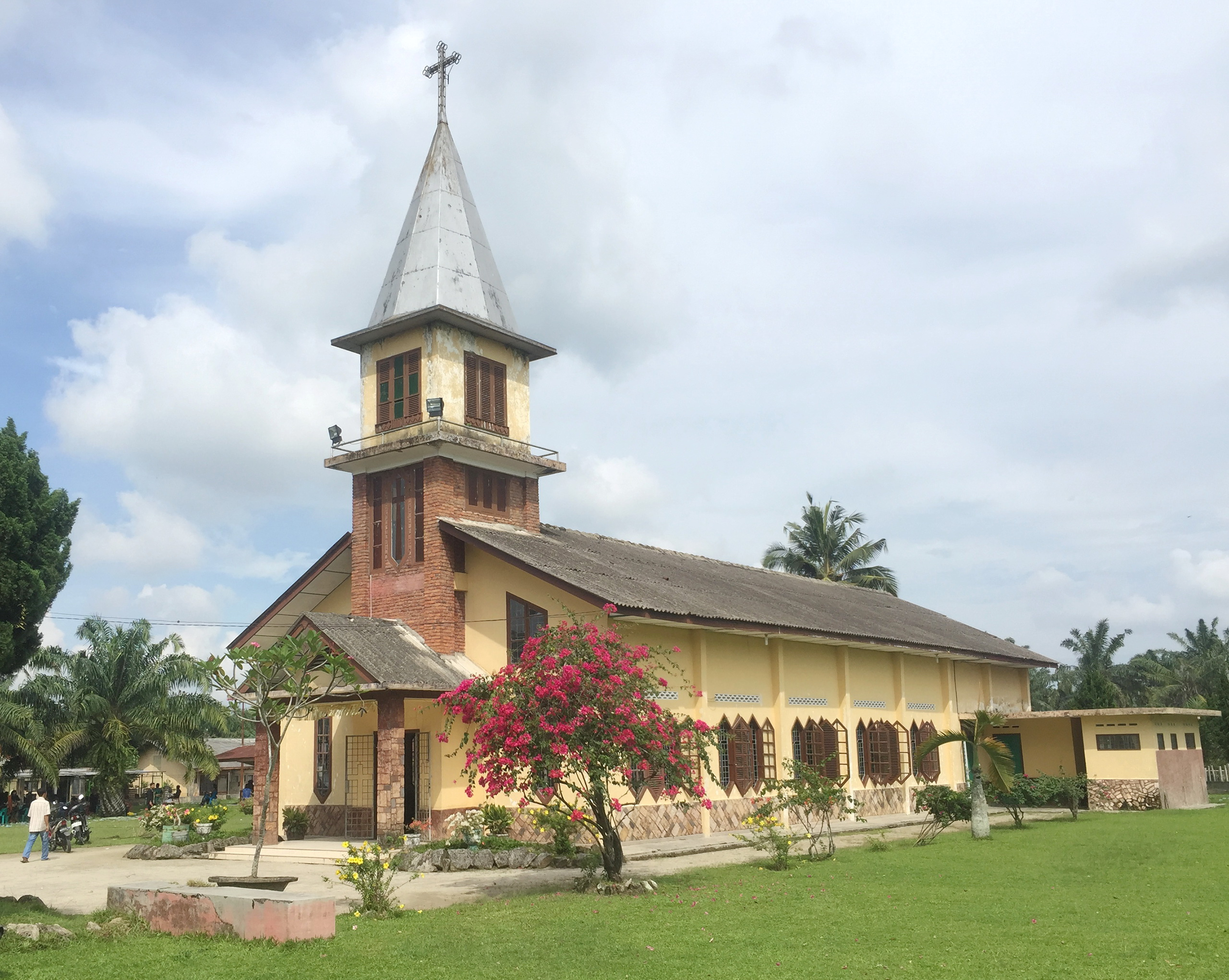 HKBP Bah Jambi, Church in Bah Jambi, Bah Jambi, Simalungun